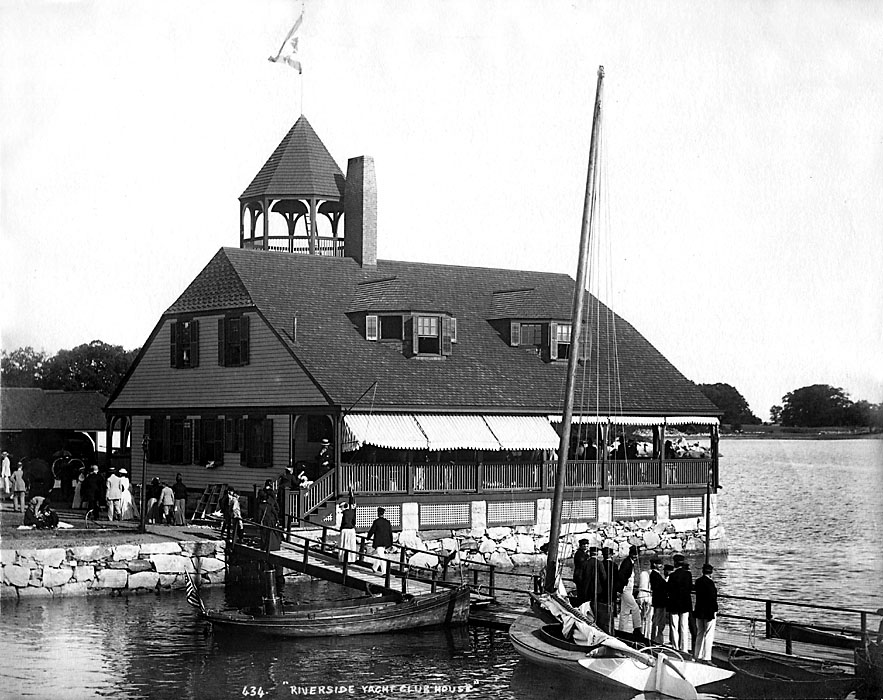 Club House of the Riverside Yacht Club, Riverside, Connecticut, as it appeared in the 1890s.